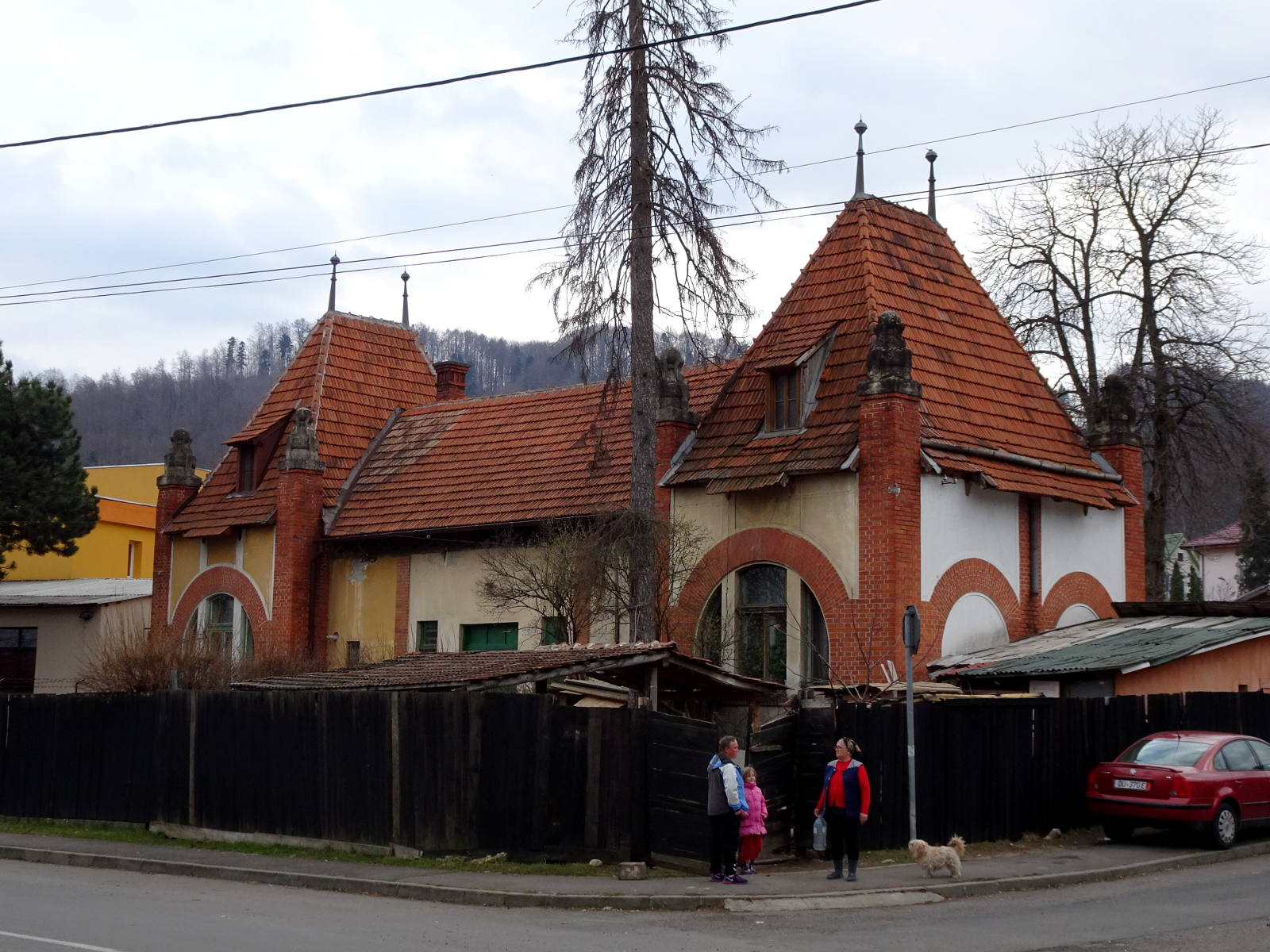 9 Garii Noua street, Noua district, Brasov, Romania. This dwelling-house used to be a station building for the Bartolomeu-Sacele railway line, opened in 1892 and ceased in 1960.